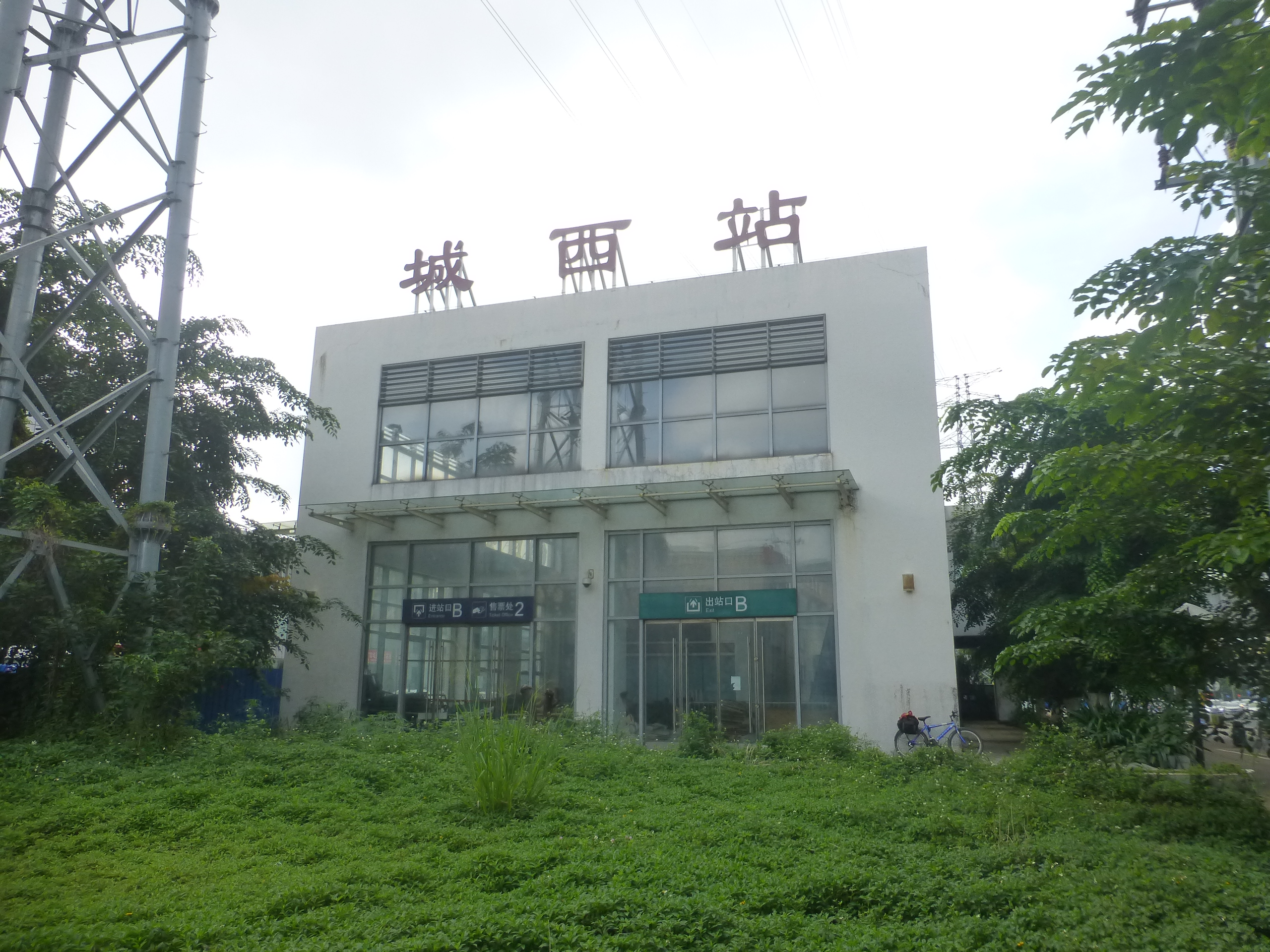 Chengxi Railway Station, a ghost station on the Hainan Western Ring Railway in Haikou